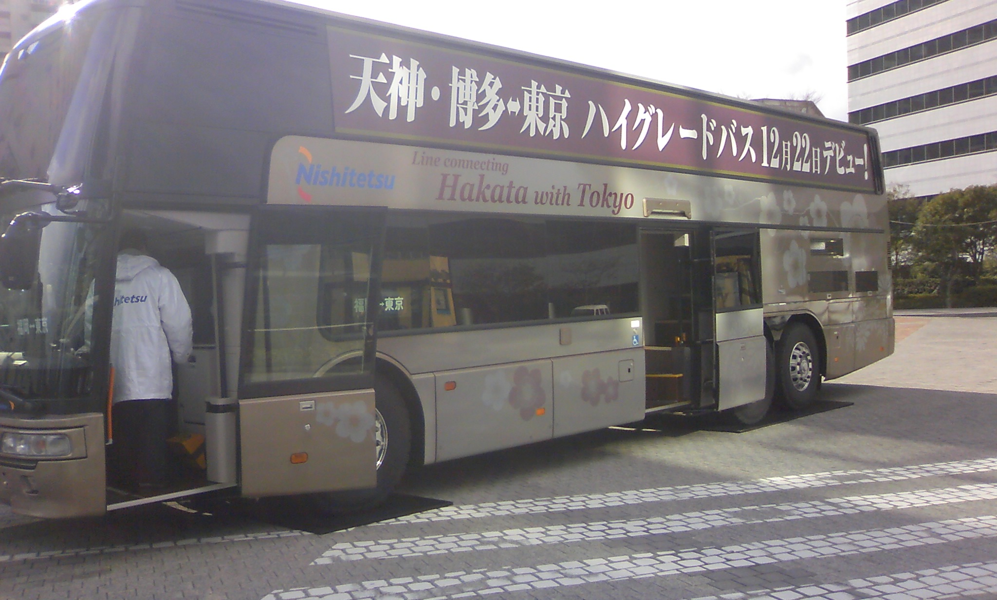 Hakata go, Mitsubishi Fuso Aero King.